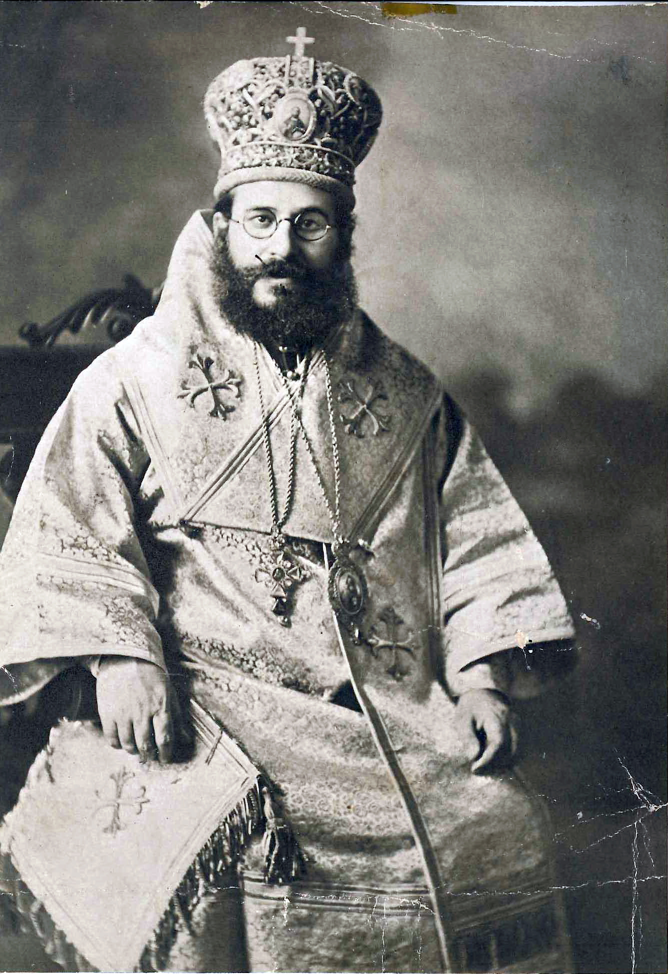 Archbishop Victor Abo-Assaly